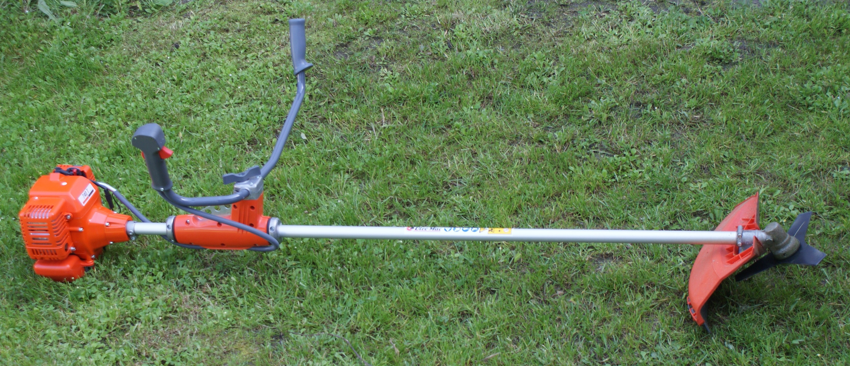 A Brush cutter powered by a 2-stroke engine.